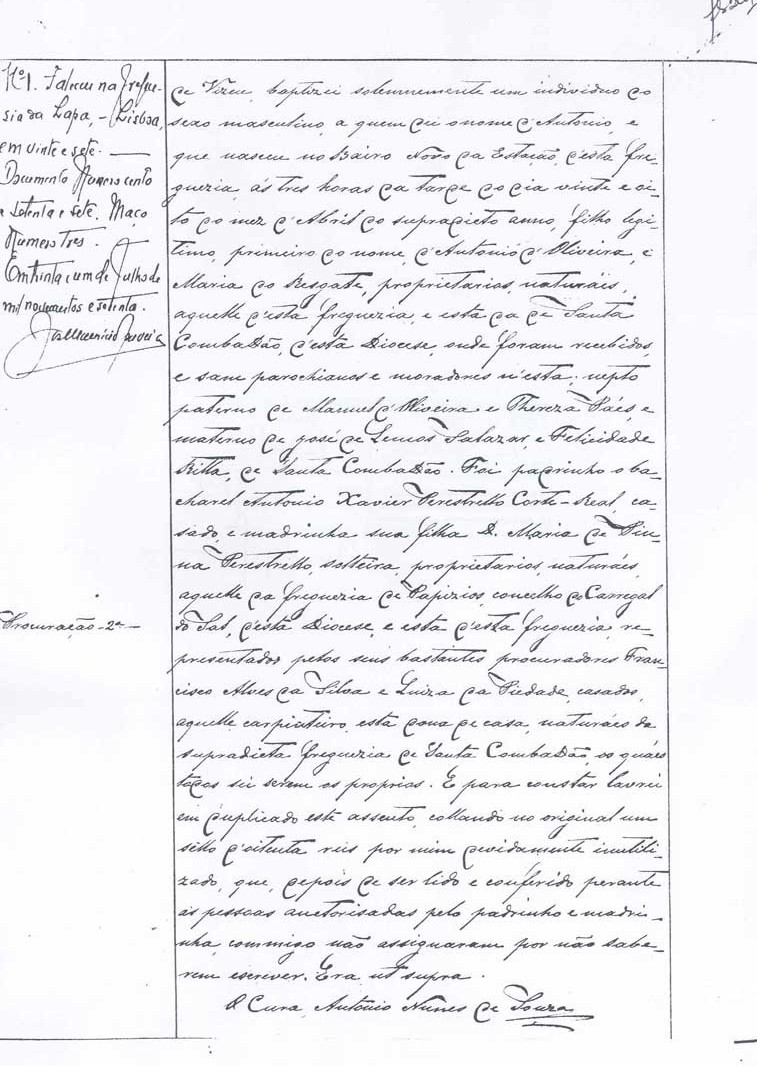 Partial photocopy of the birth record of António de Oliveira Salazar Transcrição (ortografia vigente) - Transcription (current spelling) (...)baptizei solenemente um indivíduo do sexo masculino a quem dei o nome de António e que nasceu no bairro novo da Estação desta freguesia às três horas da tarde do dia vinte e oito do mês de Abril do supradito ano, filho legítimo e primeiro do nome de António de Oliveira e Maria do Resgate, proprietários e naturais aquele desta freguesia e esta da de Santa Comba Dão, desta diocese, onde foram recebidos e são paroquianos e moradores nesta; neto paterno de Manuel de Oliveira e Teresa Pais e materno de José de Lemos Salazar e Felicidade Rita de Santa Comba Dão. Foi padrinho o bacharel António Xavier Perestrelo Corte-Real, casado, e madrinha sua filha D. Maria de Pina Perestrelo, solteira, proprietários, naturais aquele da freguesia de Papízios, concelho do Carregal do Sal, desta diocese, e esta desta freguesia, representados pelos seus bastantes procuradores Francisco Alves da Silva e Luísa da Piedade, casados, aquele carpinteiro, esta dona de casa, naturais da supradita freguesia de Santa Comba Dão, os quais todos sei serem os próprios. E para constar lavrei em duplicado este assento, colando no original um selo de oitenta reis por mim devidamente inutilizado, que, depois de ser lido e conferido perante às pessoas autorizadas pelo padrinho e madrinha, comigo não assinaram por não saberem escrever. Era ut supra. O Cura António Nunes de Sousa (assinado)